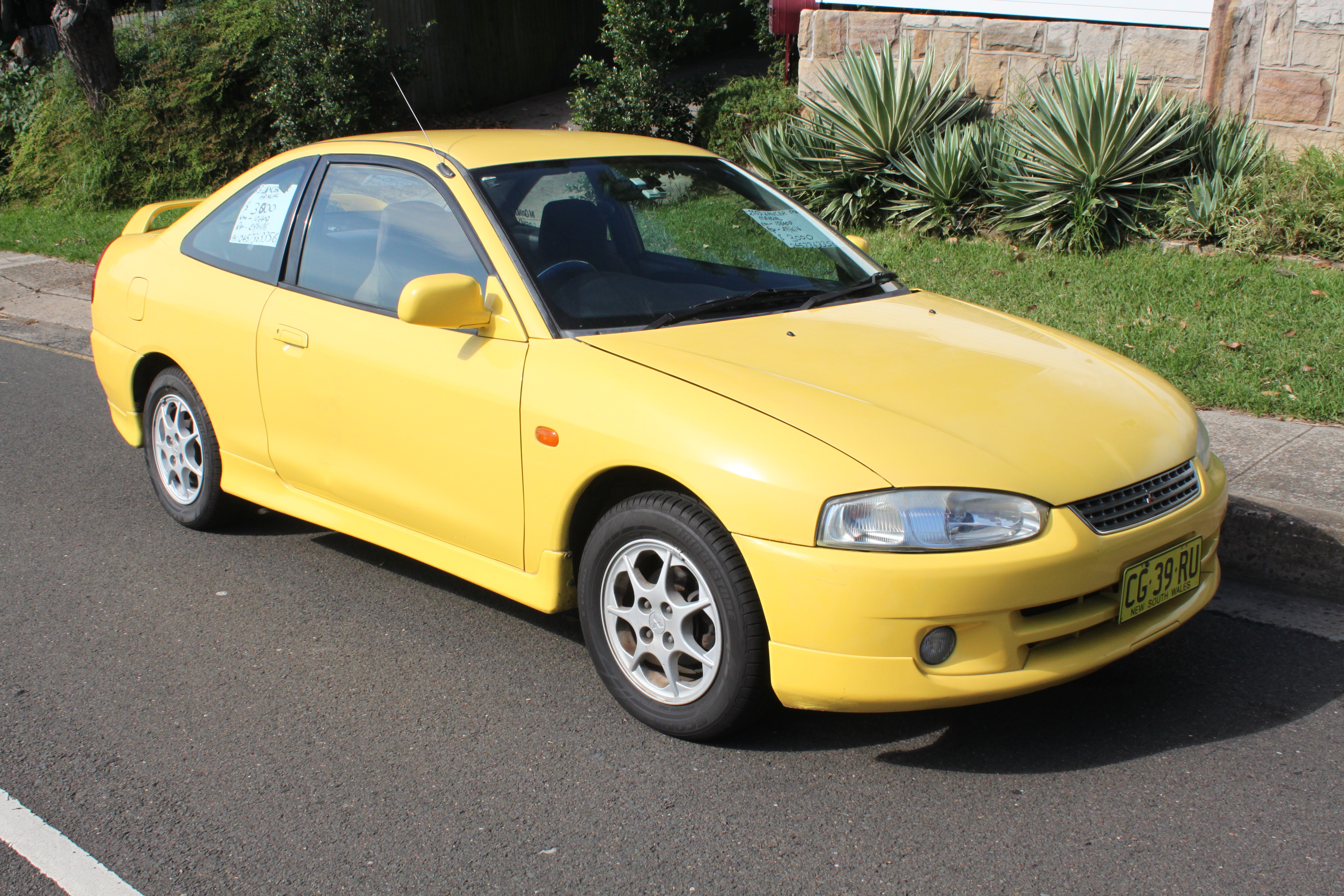 Mitsubishi Lancer CE2 MR